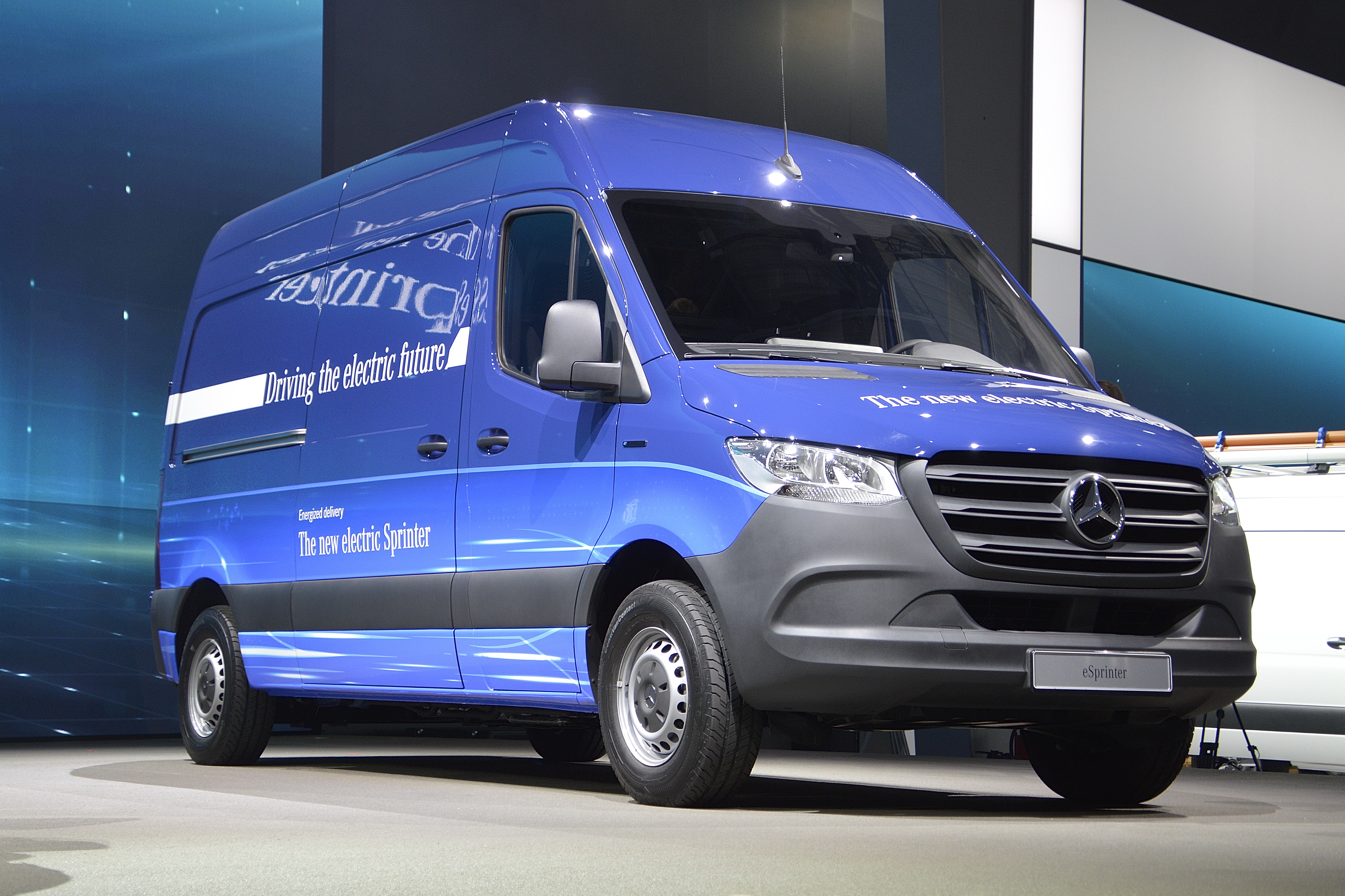 Mercedes-Benz eSprinter, seen at IAA 2018. The vehicle will be offered in 2019 as a panel van. Gross vehicle weight: 3500 kilograms. Maximum cargo volume: 10.5 m³. Photo without further processing yet. If you need a raw image format, you may leave a message: here.